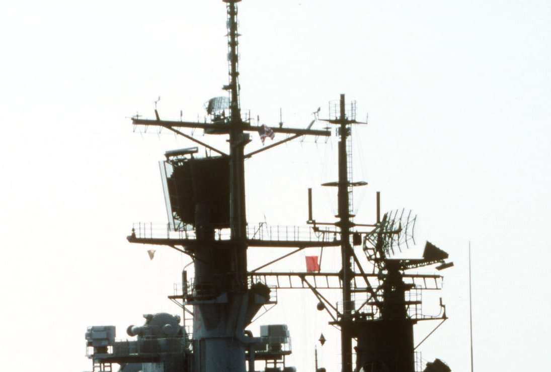 Radar arrangement of the U.S. Navy guided missile cruiser USS Richmond K. Turner (CG-20) in 1991 (left to right): SLQ-32, SPS-48, SPS-10, SPS-49.